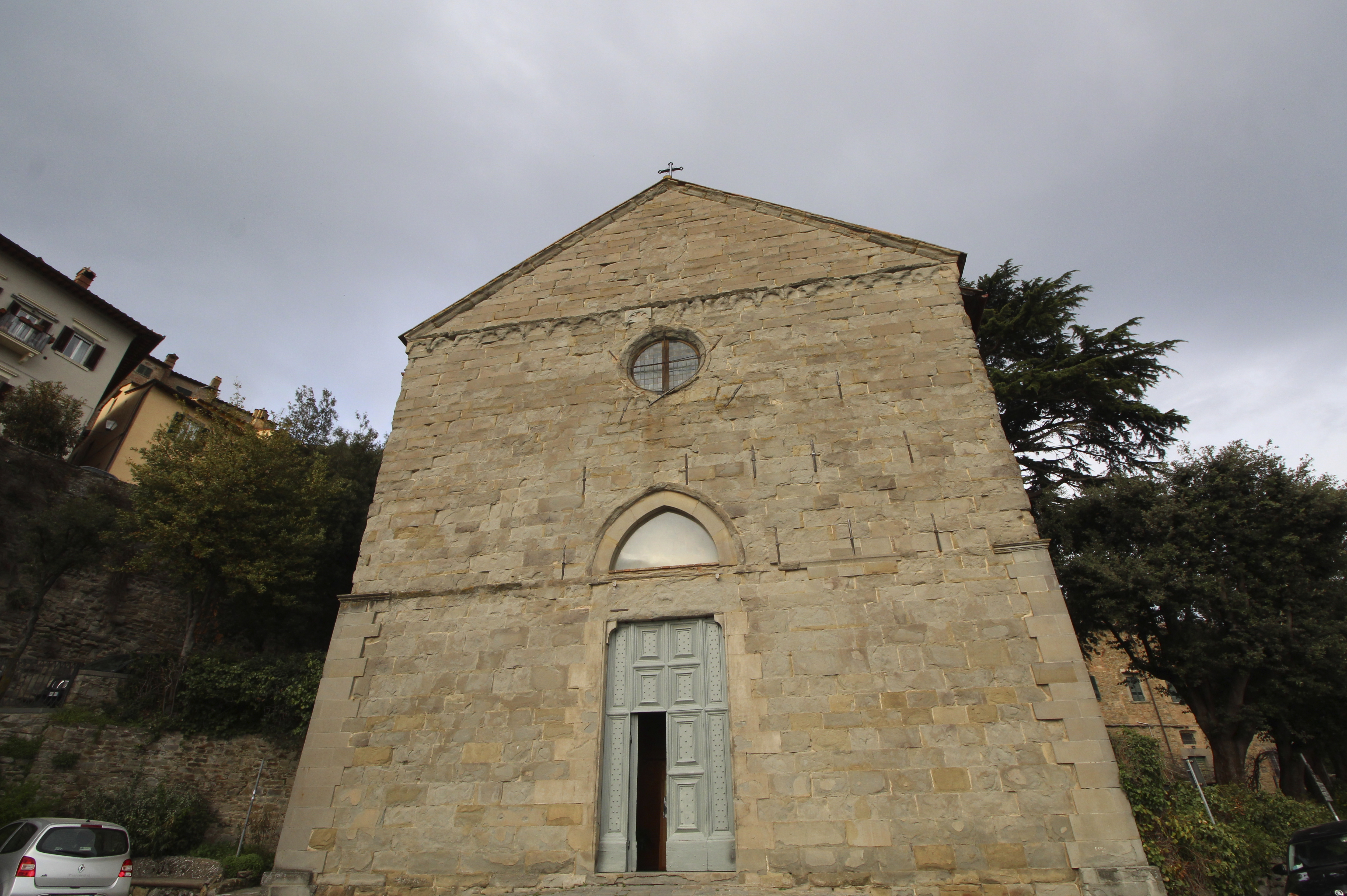 Church San Domenico, Cortona, Province of Arezzo, Tuscany, Italy